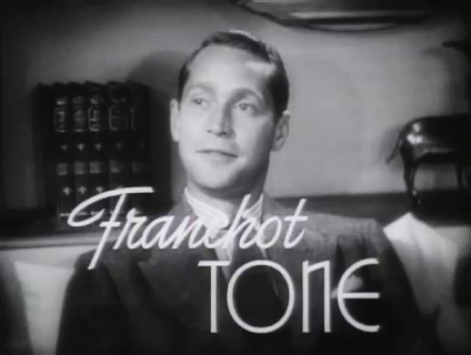 Franchot Tone in Three Loves Has Nancy by Richard Thorpe (1938)